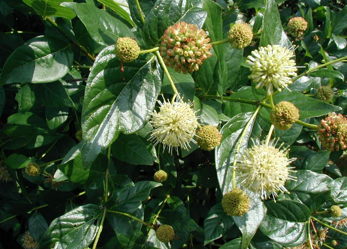 Cephalanthus occidentalis: Flowers and leaves.